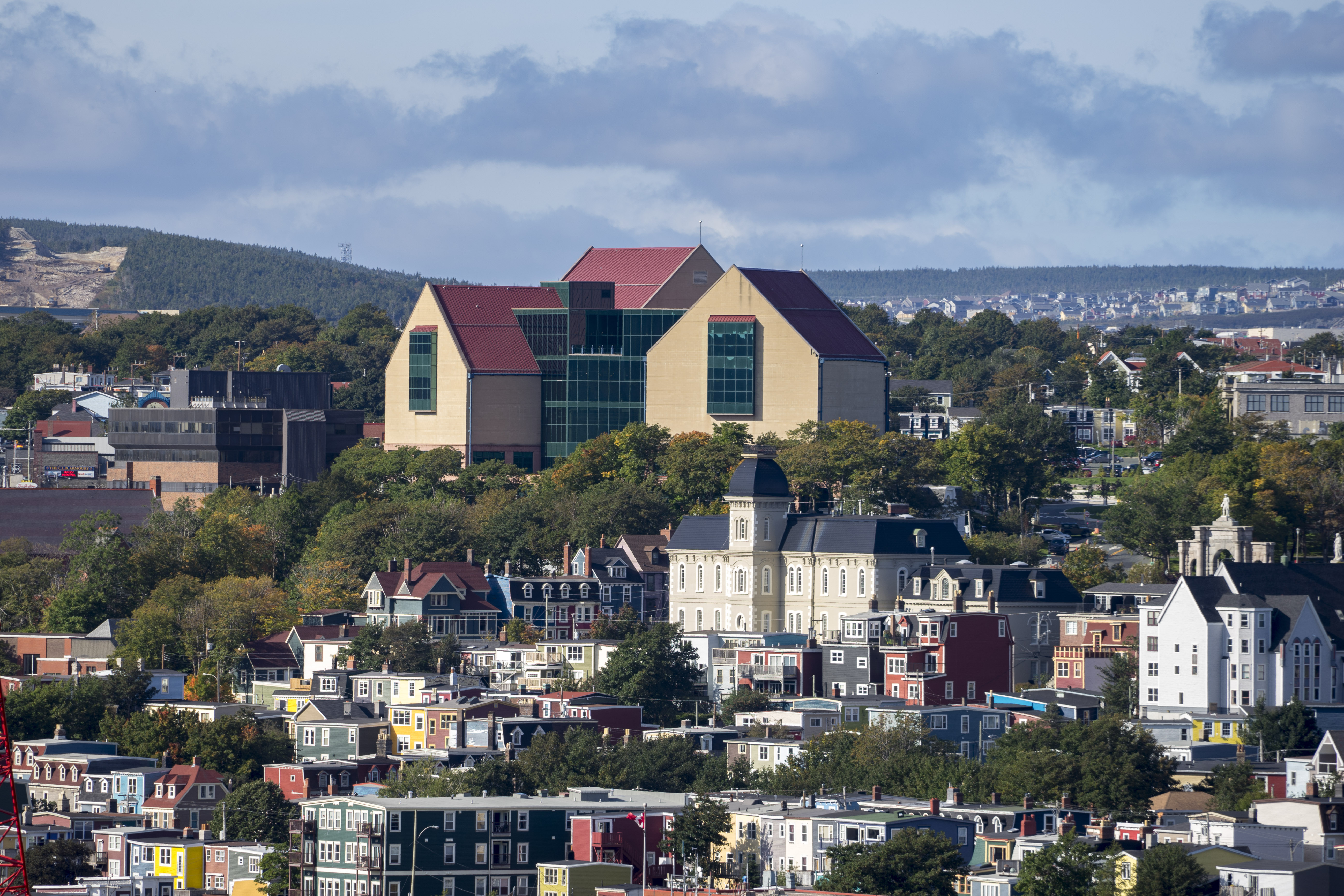 The Rooms, Newfoundland and Labrador's provincial archives and art gallery, overlooking the harbour of St. John's.